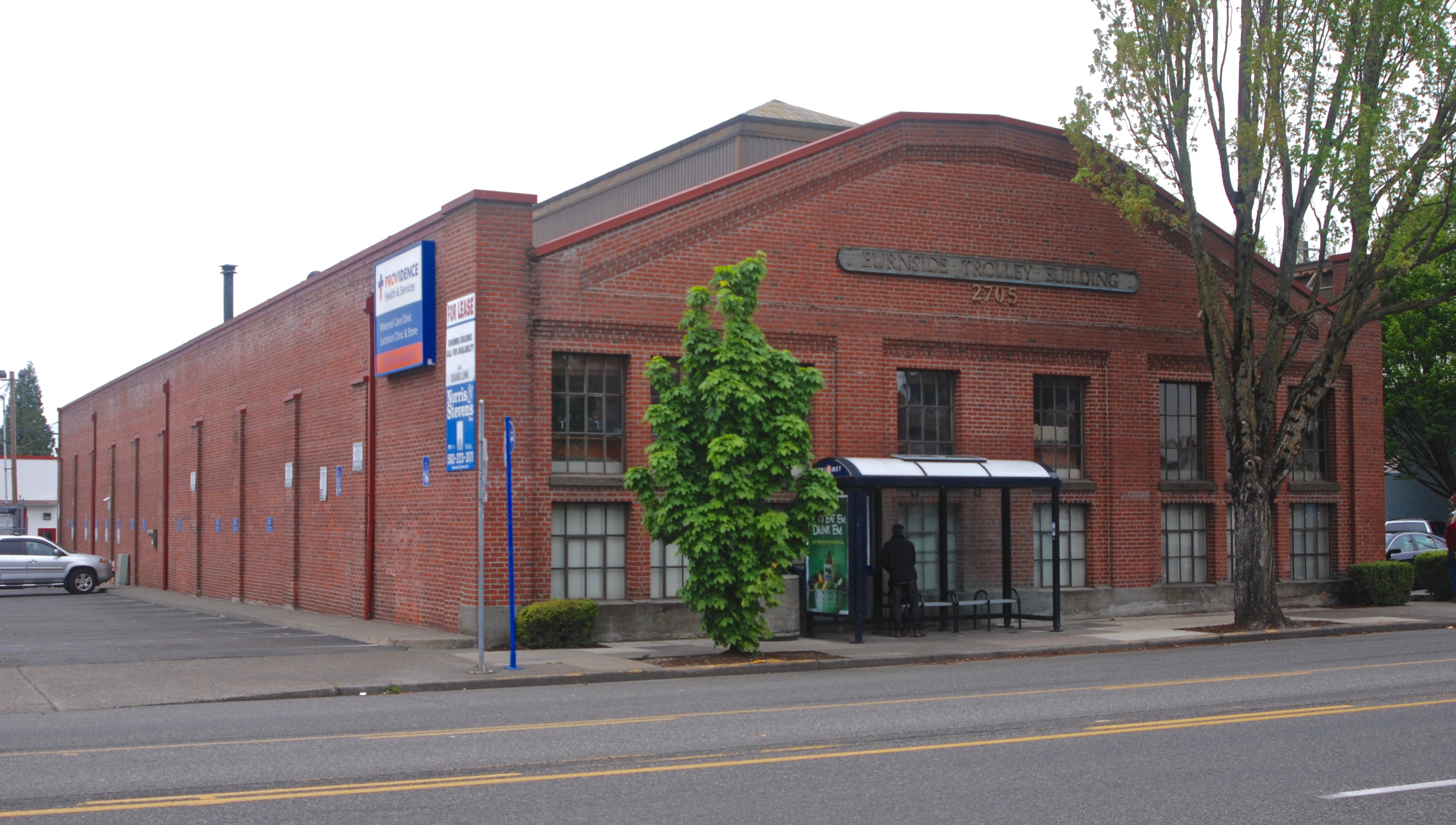 The Burnside Trolley Building, formerly Bay E of the West Ankeny Carbarns (of the Portland, Oregon, streetcar system), viewed from the southwest. The streetcar tracks entered the building at its opposite end, on Couch Street.